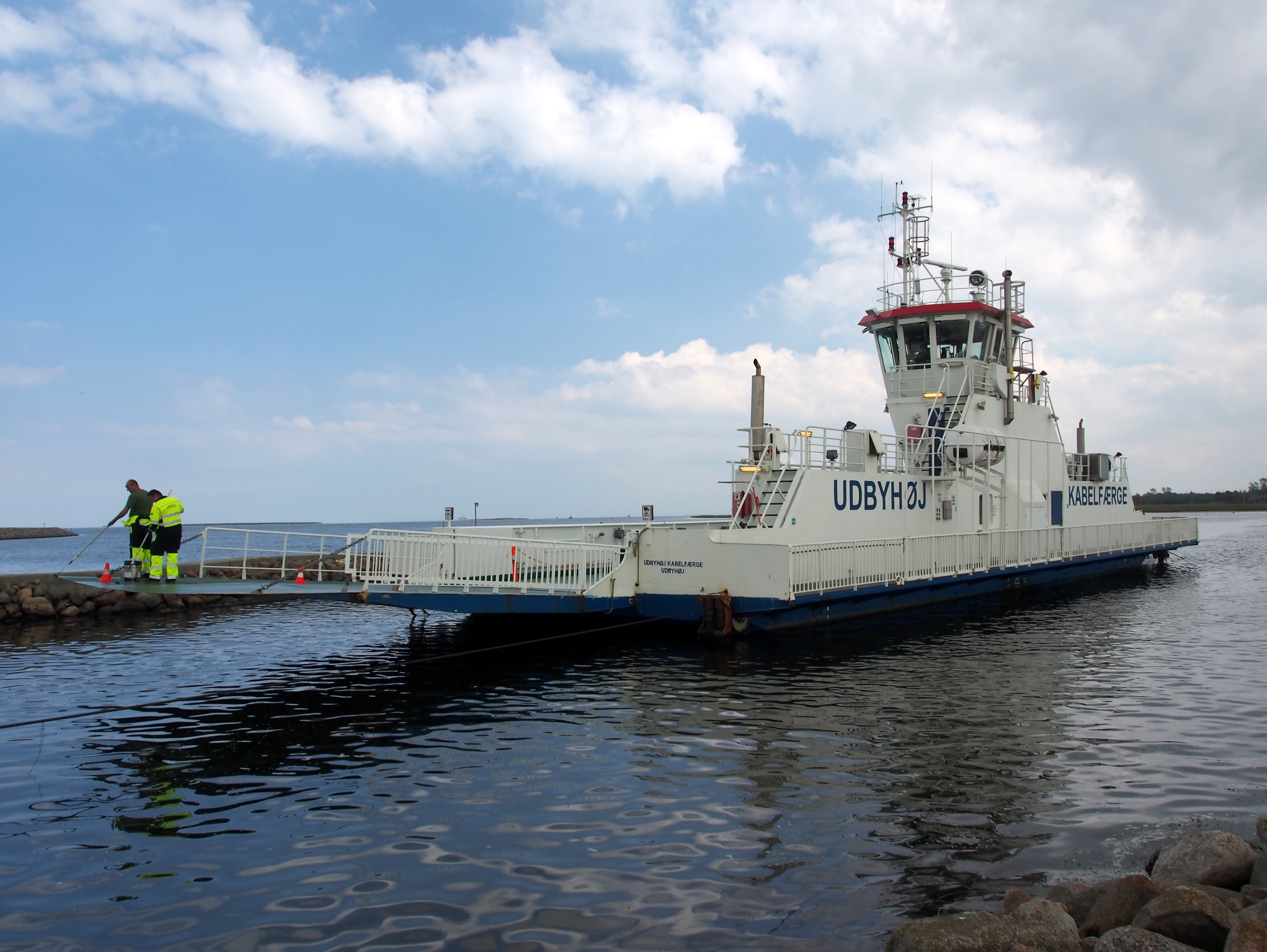 Photographed in Denmark.